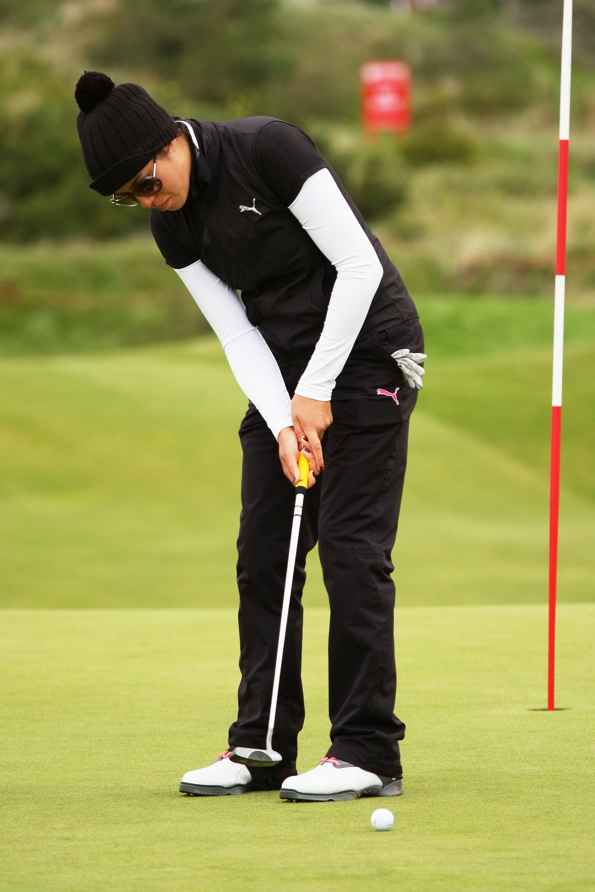 SOUTHPORT, UNITED KINGDOM - JULY 28: Jade Schaeffer of France on the 9th green during third practice round before 2010 Ricoh Women's British Open held at Royal Birkdale on July 28, 2010 in Southport, England. (Photo by Wojciech Migda)